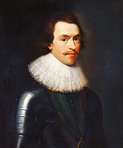 George Villiers, 1st Duke of Buckingham.